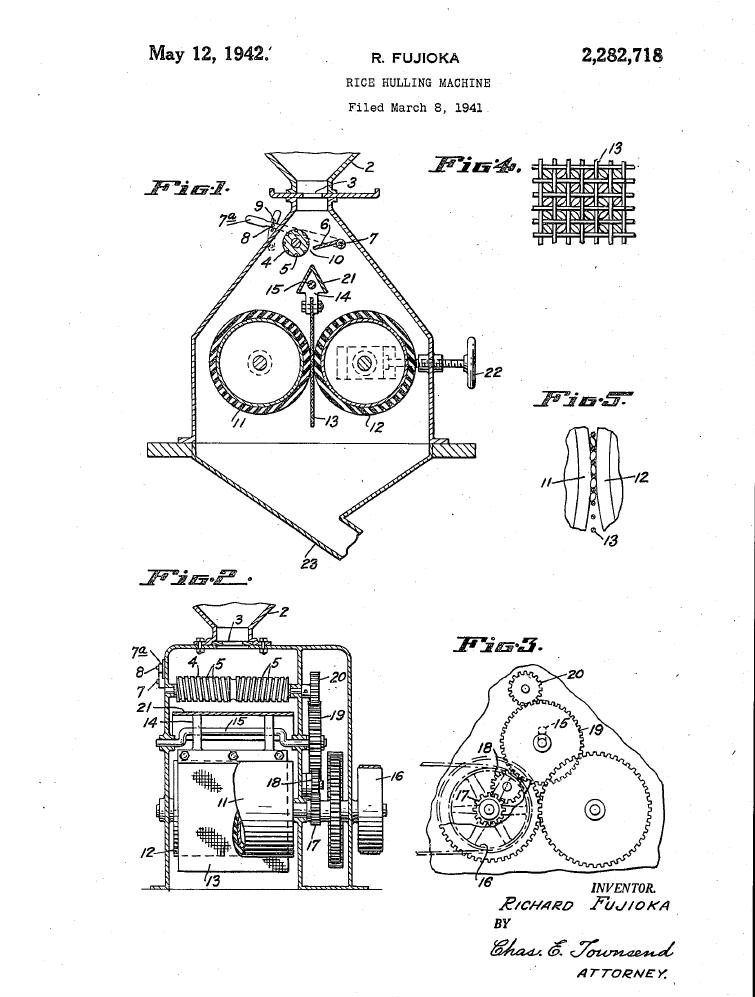 Rice hulling machine - best descriptive drawing so far.